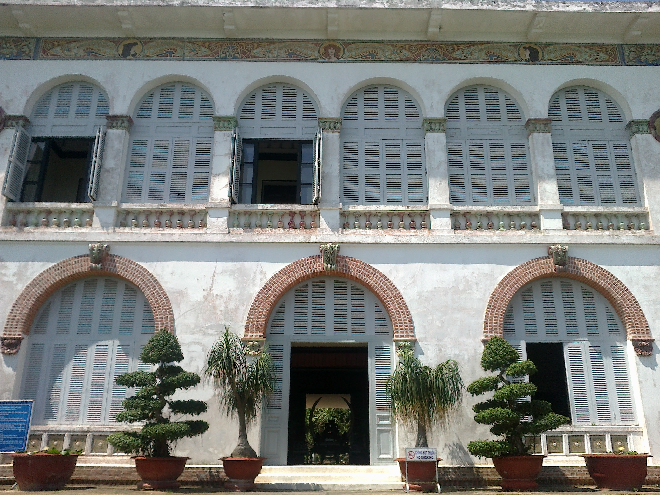 White Palace of Bao Dai Emperor in Vung Tau, Vietnam.